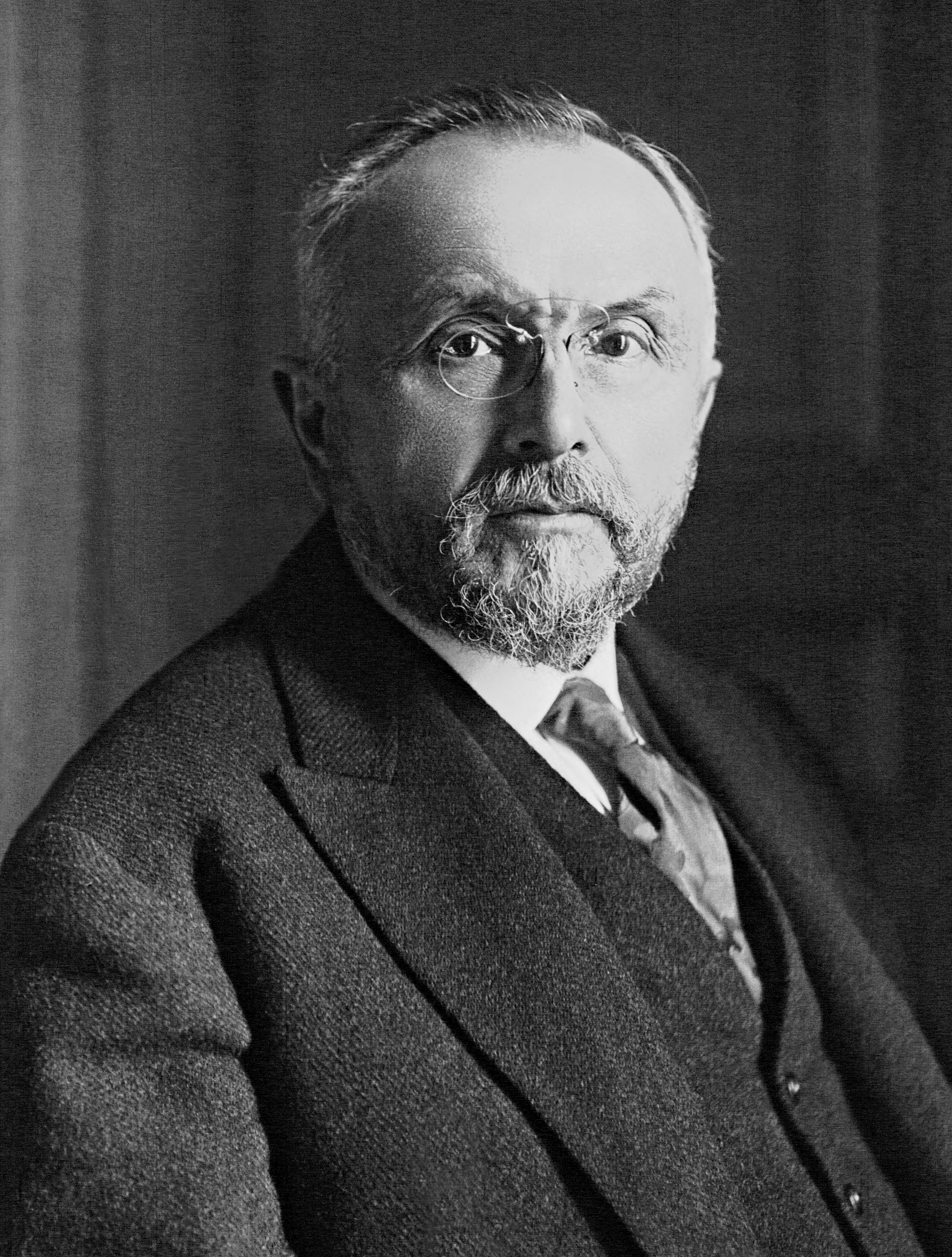 Gabriel Hanotaux (1867-1928), French historian, diplomat and politician, a member of Académie française. Picture taken in 1921 : glass negative, restored and cropped print.